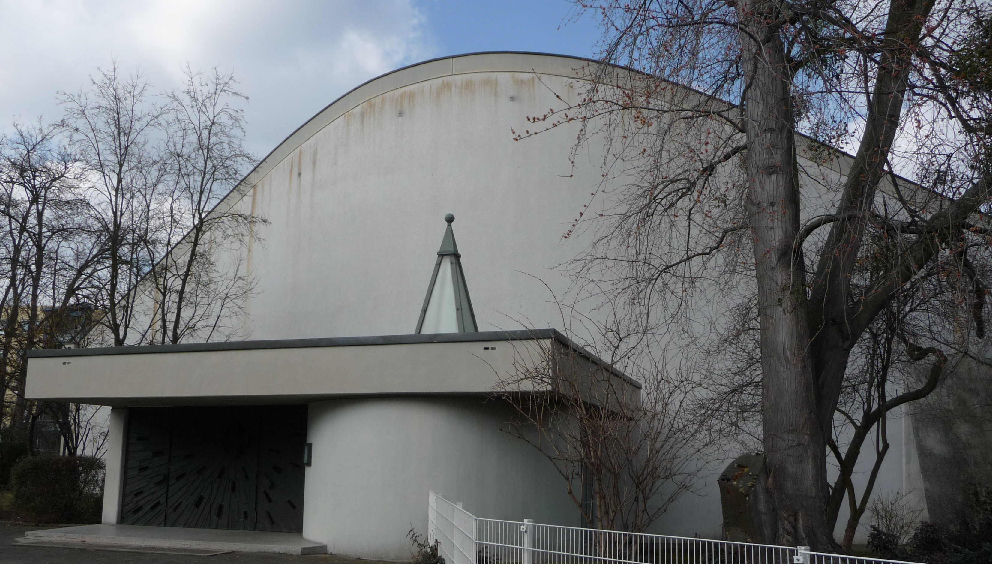 Church in Ludwigshafen, Germany